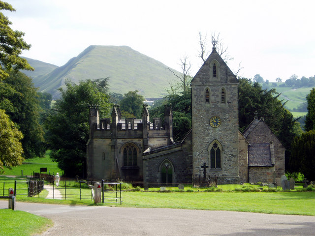 Ilam Church Thorpe Cloud provides a magnificent backdrop to this view of Ilam Church